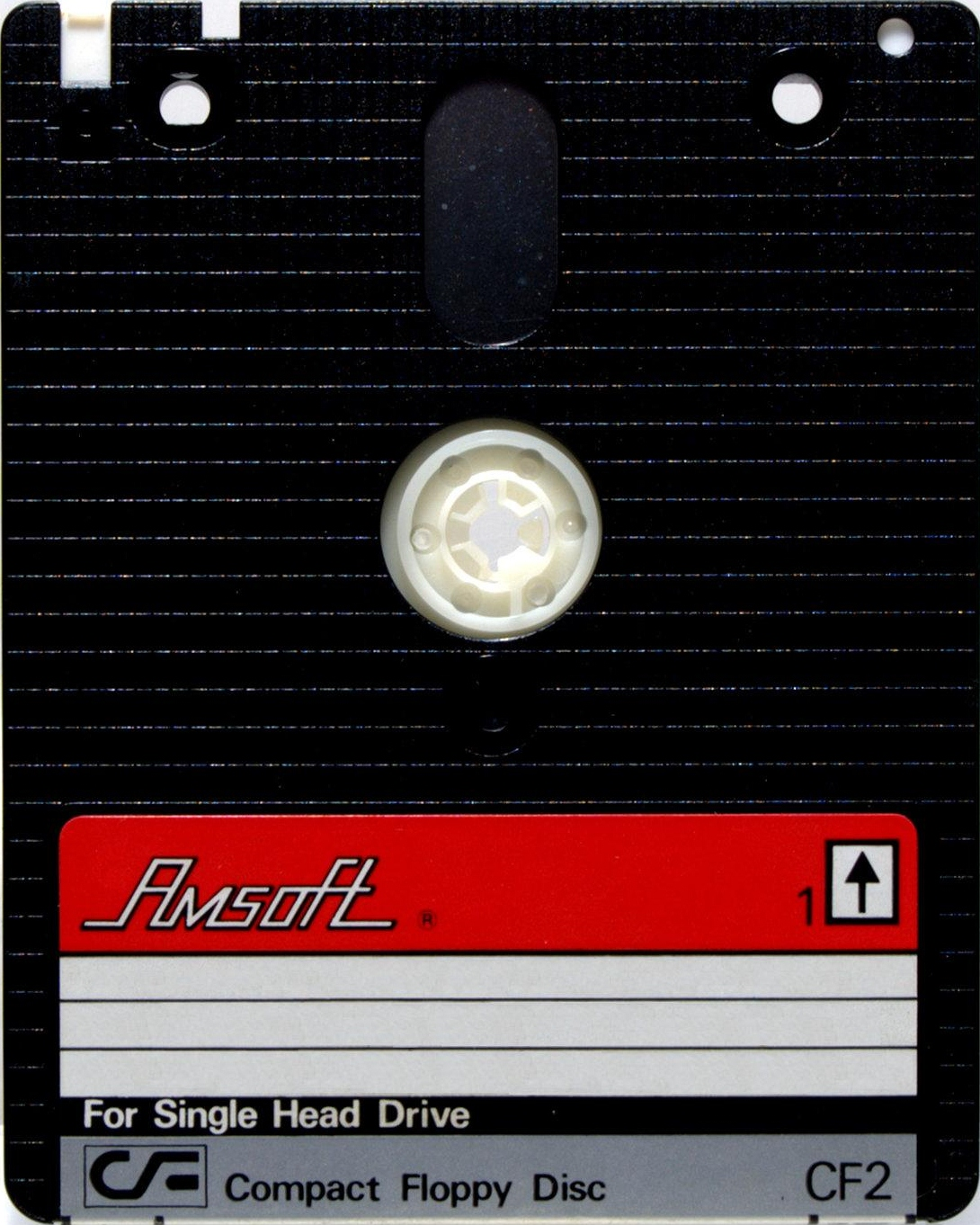 Disco de 3" de Amstrad CPC